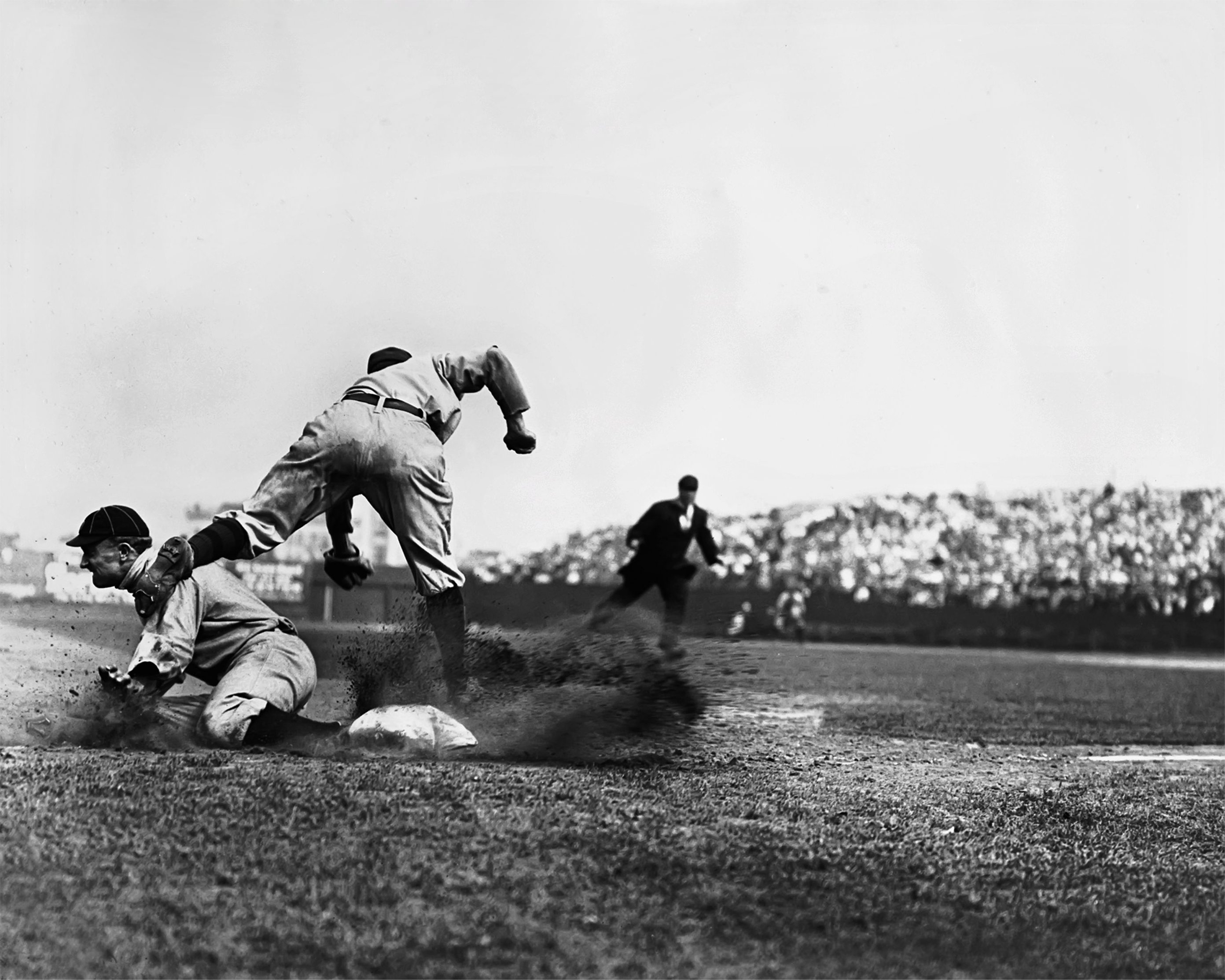 Public Domain - some sources say the photo was taken in 1909 or in "late summer 1909". Other sources say specifically July 23, 1910. That was verifiably a Tigers-at-Highlanders game. Jimmy Austin, the third baseman in this picture, played for the Highlanders during only 1909-1910. More research is needed.